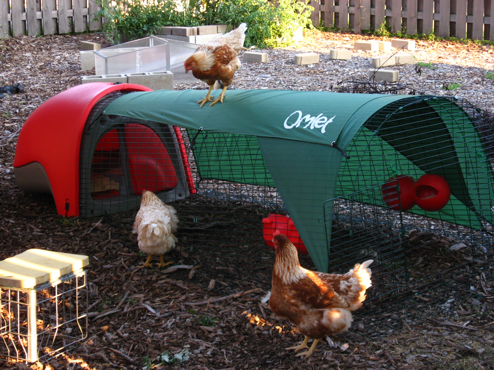 Three hens being let out of their Eglu.